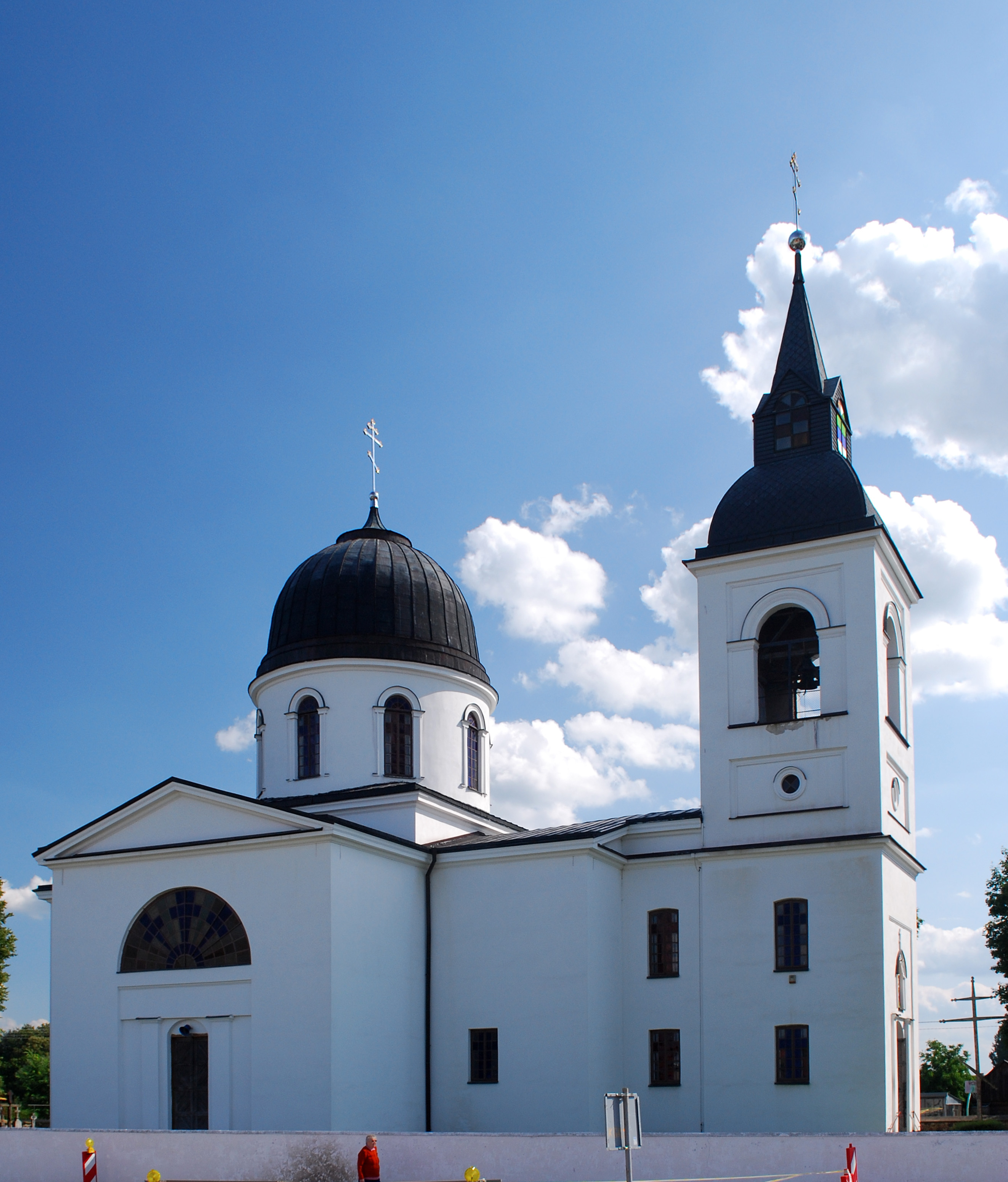 This photo from Podlaskie Voievodeship was taken during Polish Wikiexpedition 2009 set up by Wikimedia Polska Association. The making of this document was supported by Wikimedia Polska. Cerkiew w Zabłudowie